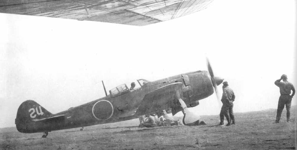 Nakajima Ki-84 Type 4 Hayate (1st additional prototype #124) of the Army Air Inspection Section, Imperial Japanese Army Air Force.